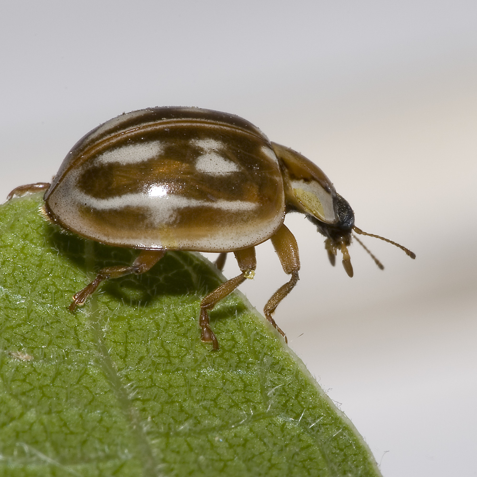 Striped ladybird